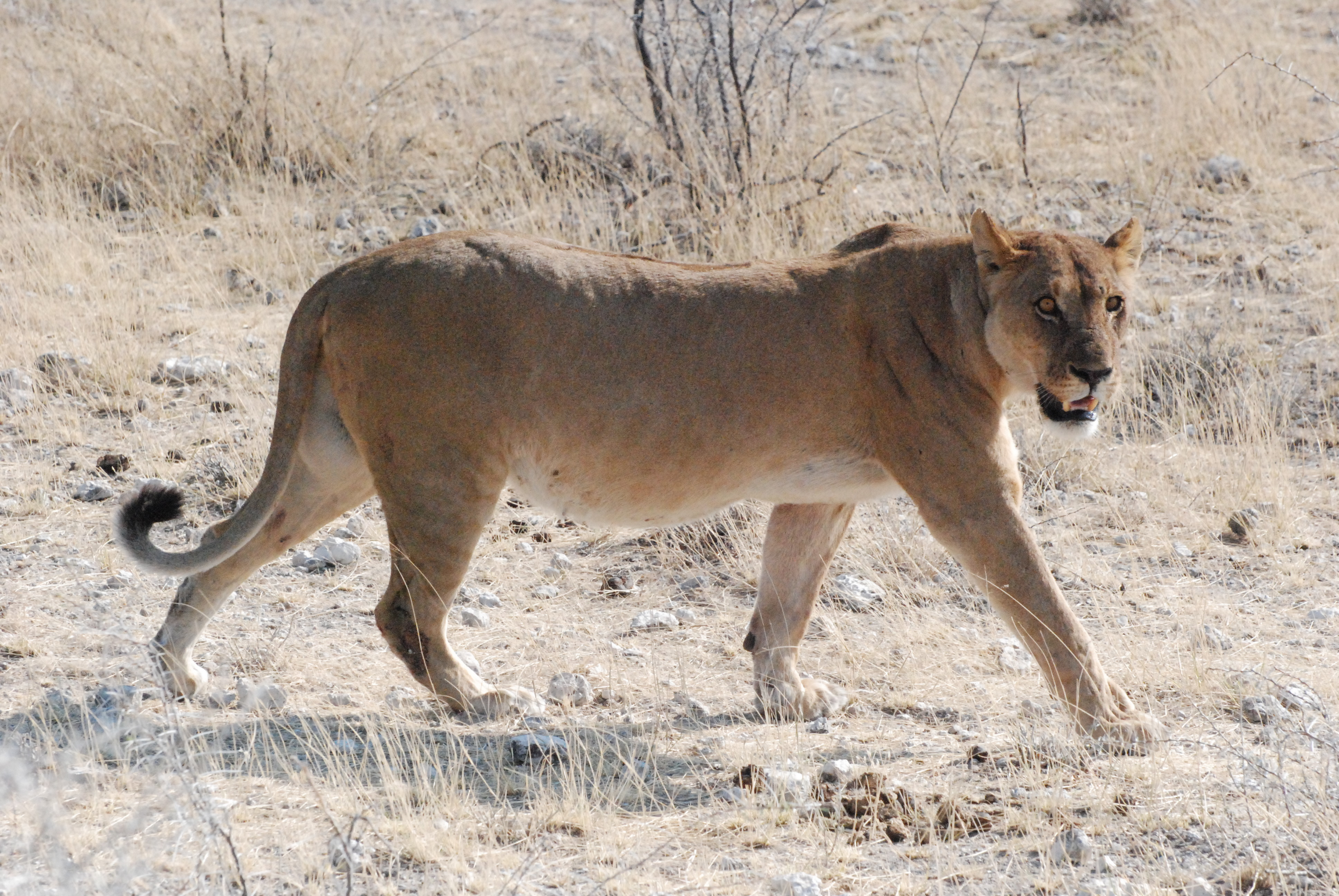 Lioness at Etosha National Park, Namibia